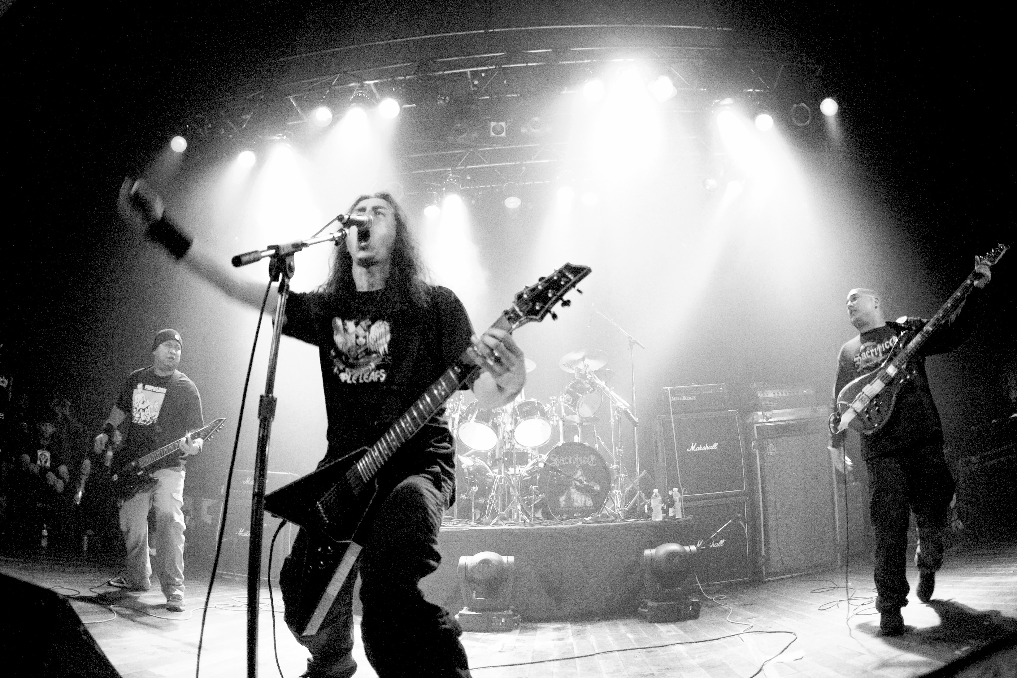 Sacrifice live in Toronto, Canada, November 21 2009